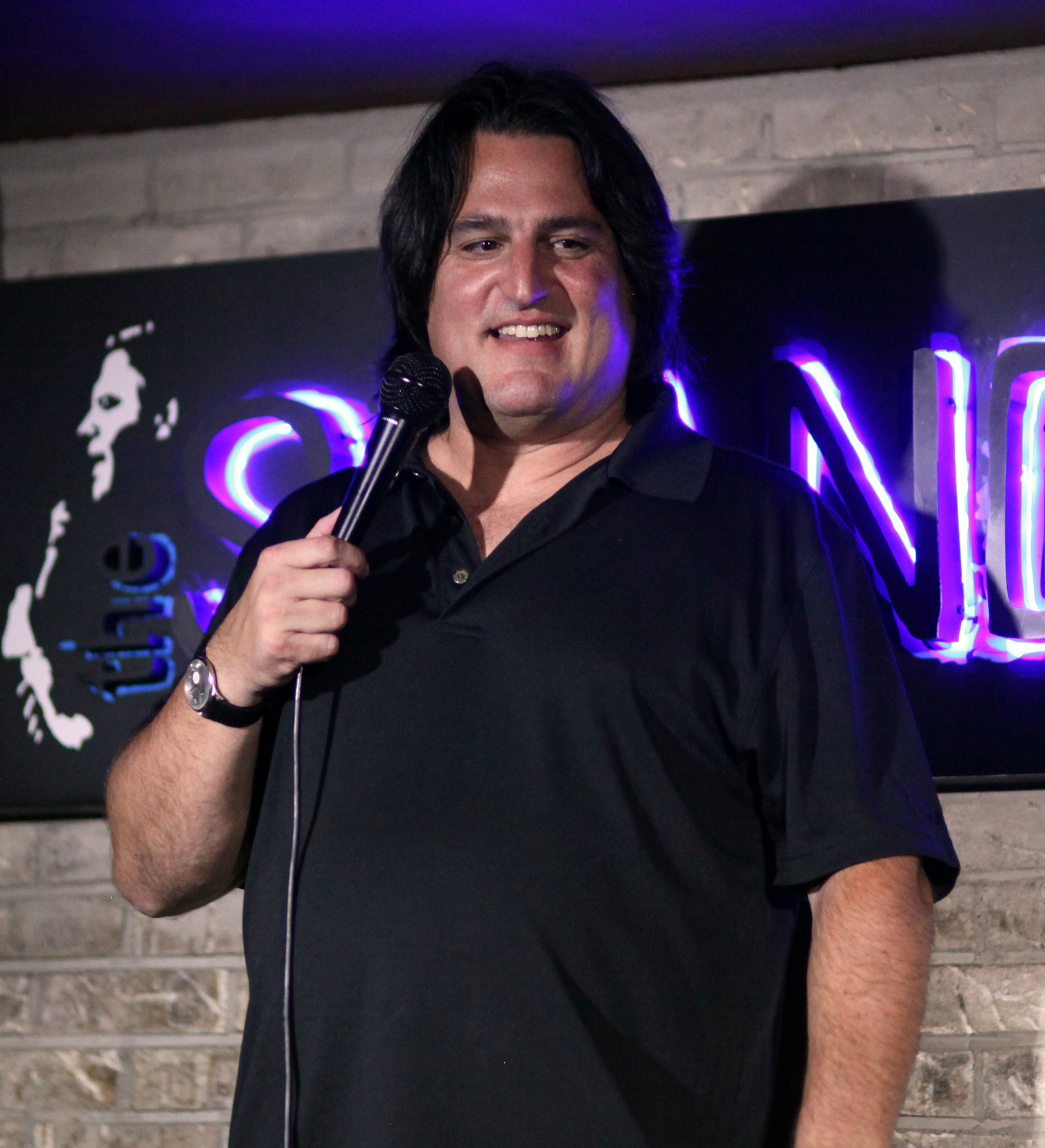 Bartnick performing at The Stand in New York City in July 2016.